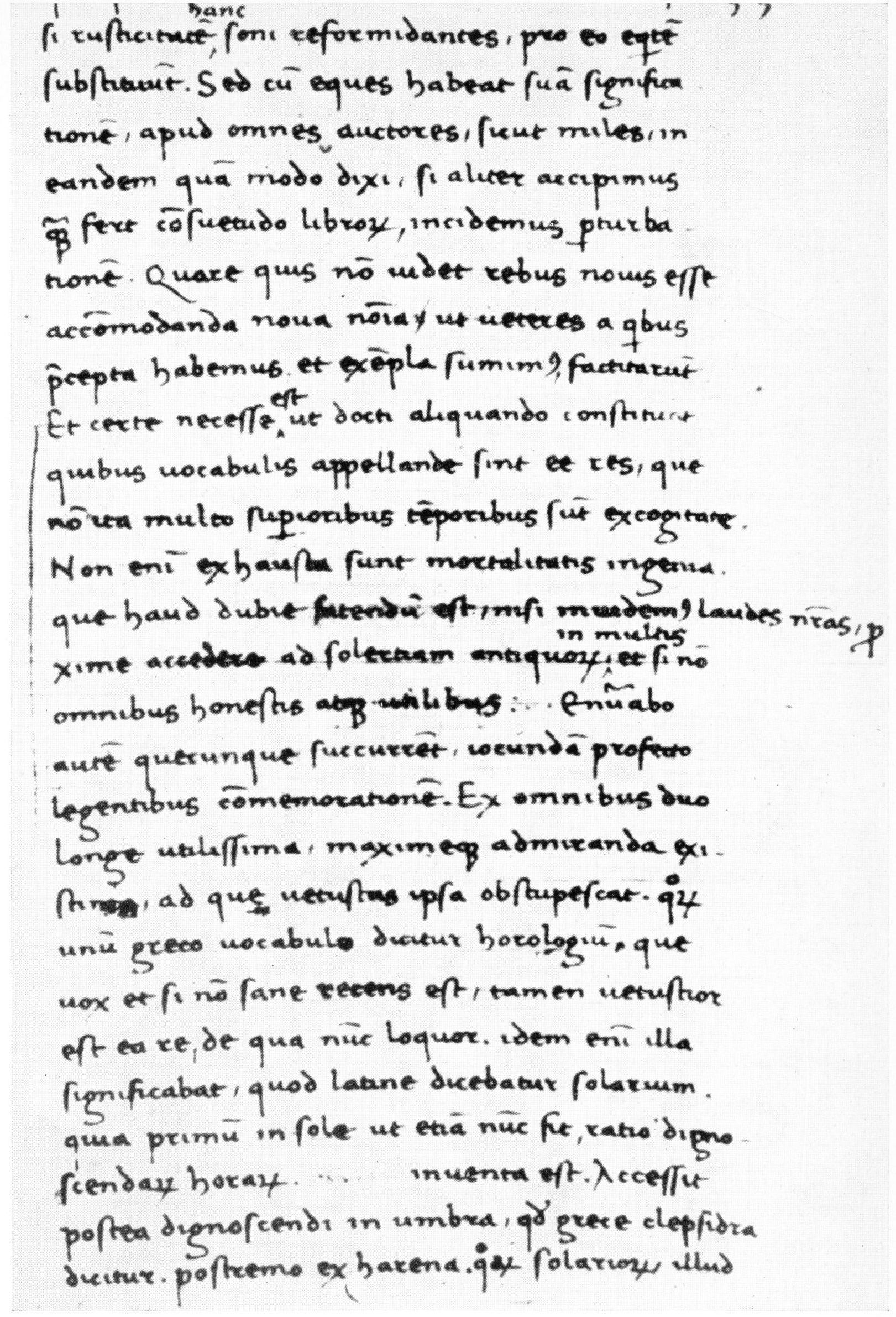 Lorenzo Valla, Gesta Ferdinandi regis, autograph. Paris, Bibliothèque Nationale, Lat. 6174, fol. 33v.